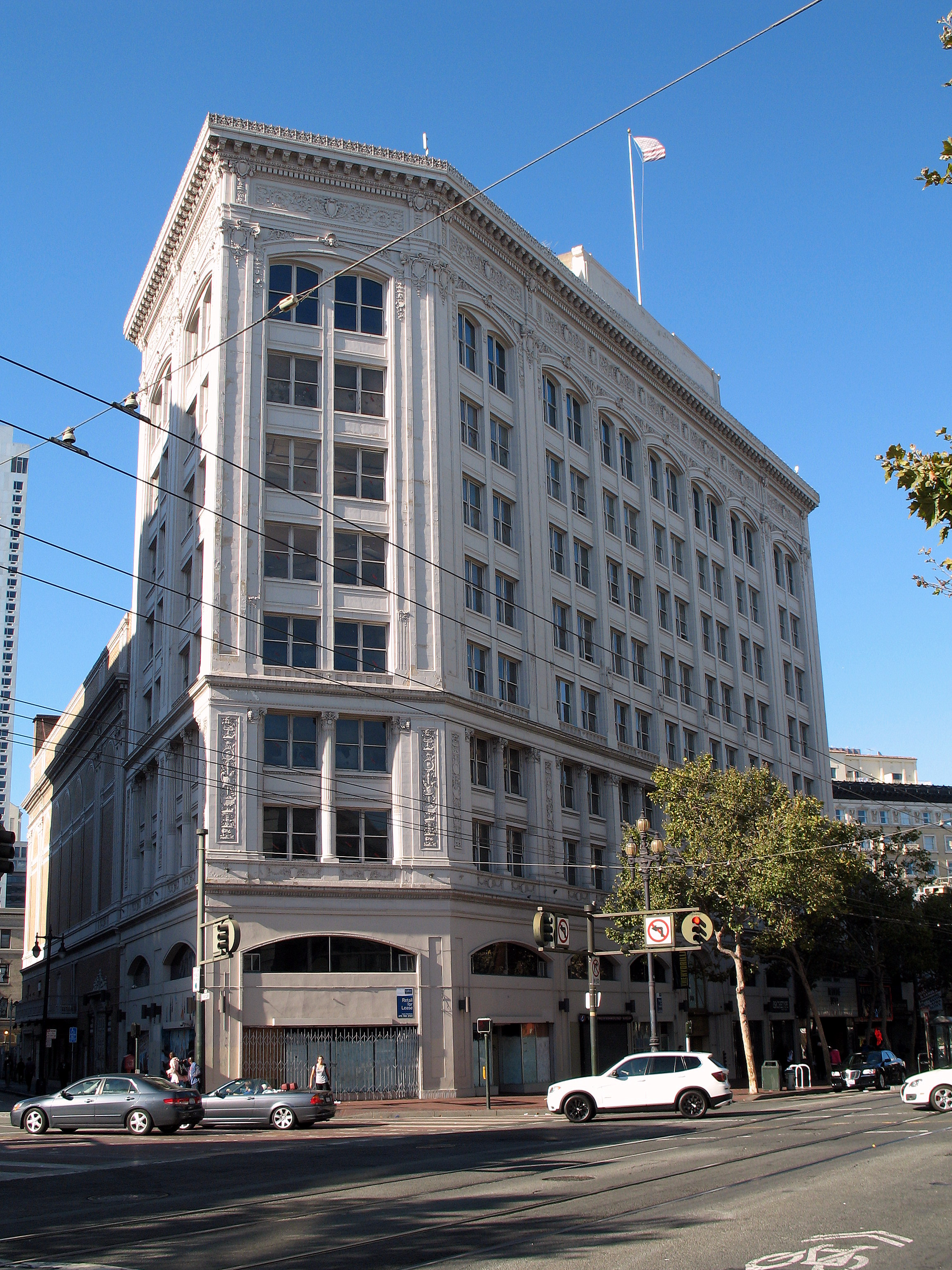 The Warfield Theatre — at 982-988 Market Street, in the Market Street Theatre and Loft District (historic district), San Francisco, California.